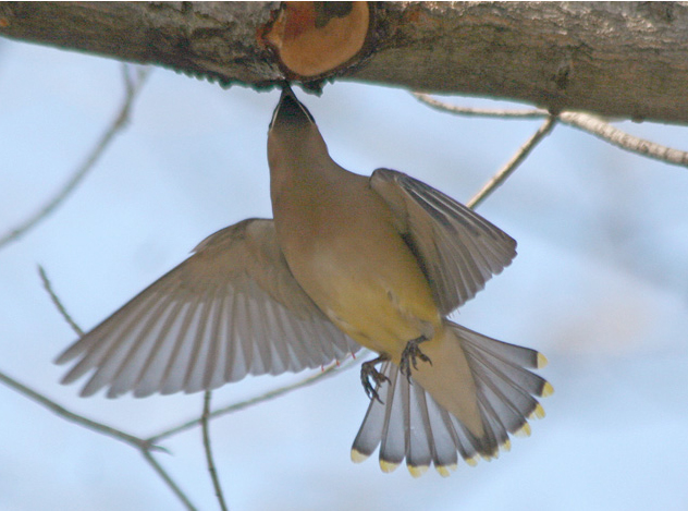 Cedar Waxwing (Bombycilla cedrorum) hovering under the dripping sap of a sugar maple tree.